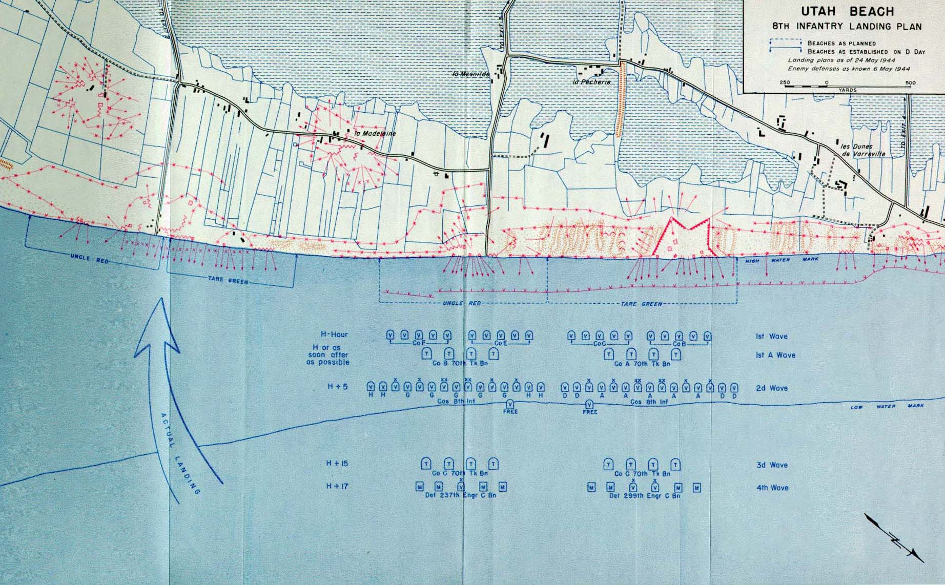 Planned and actual landing sites for the US 8th Infantry on the Cotentin Peninsula, D-Day, 6 June 1944